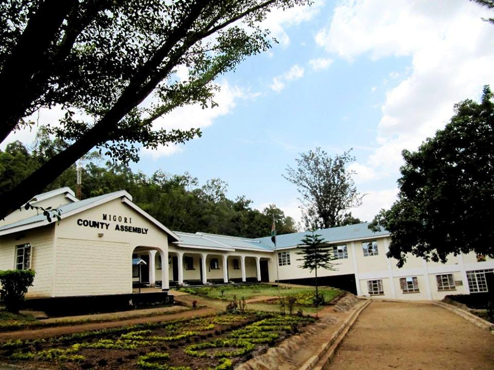 Legislation